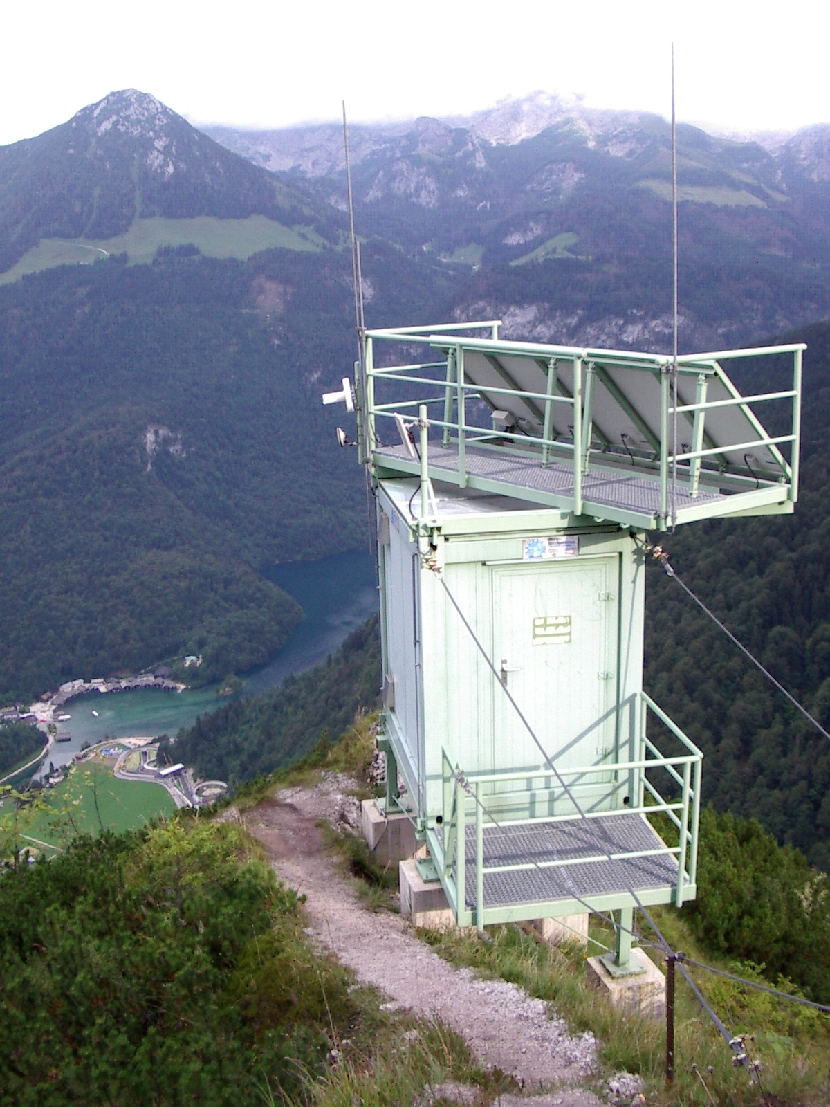 GATE-Pseudolite on the Grünstein in the Berchtesgaden Alps